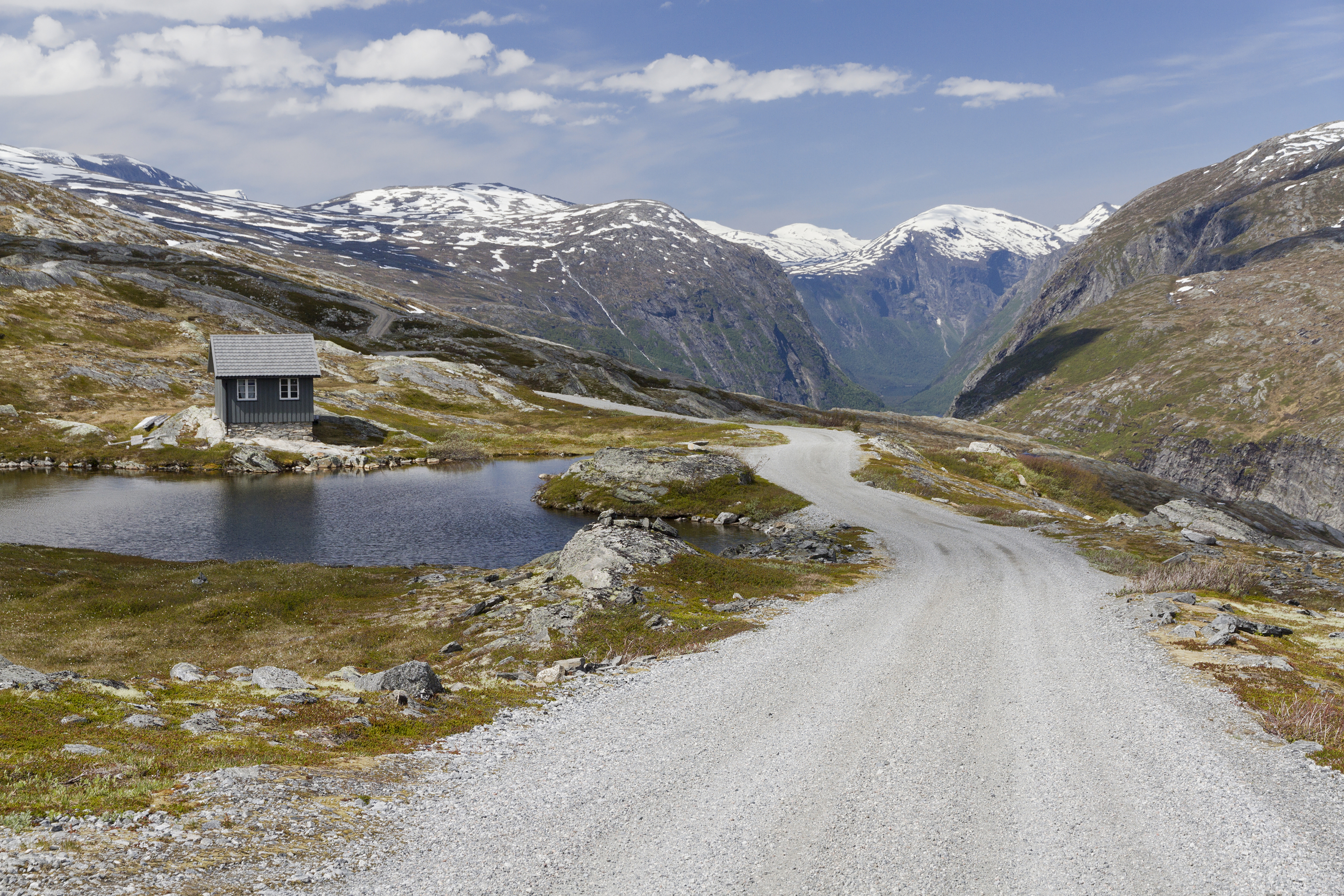 Aursjøvegen road towards Eikesdalen in Nesset, Møre og Romsdal, Norway in 2013 June. A view from the highlands.